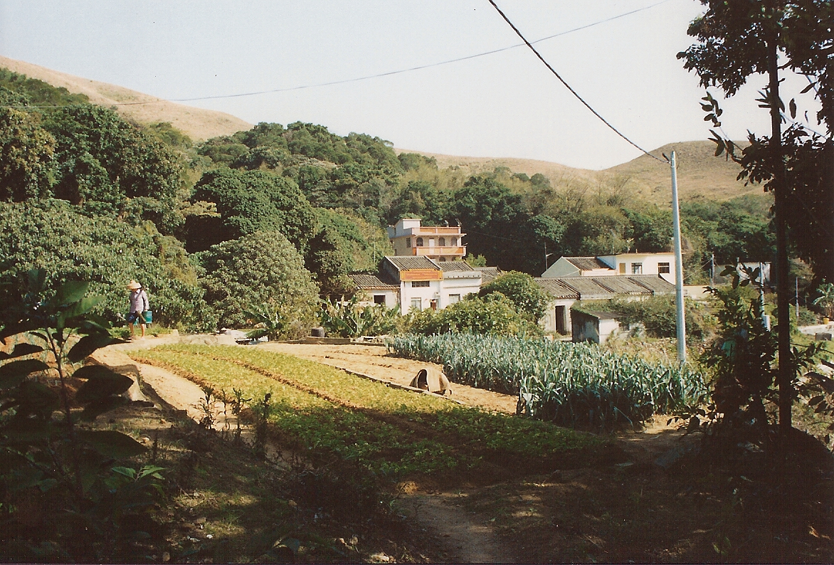 Pak Kok on Lamma Island, Hong Kong. The village lies in a little valley between the hills and the sea (Lamma Channel), and in 1992/3 consisted of clumps of houses dotted among the fields, occupied by a mix of commuters and farmers. A farmer carries water for his market garden crops and a typical bamboo basket for taking them to market lies on its side in the field. Overhead, electricity and telephone lines drape casually. The houses at the bottom of the valley, some of which are derelict, make up Pak Kok Kau Tsuen (old village): a typical new three-storey house can be seen slightly higher up. View facing south, taken 1992/3 on Fuju film.